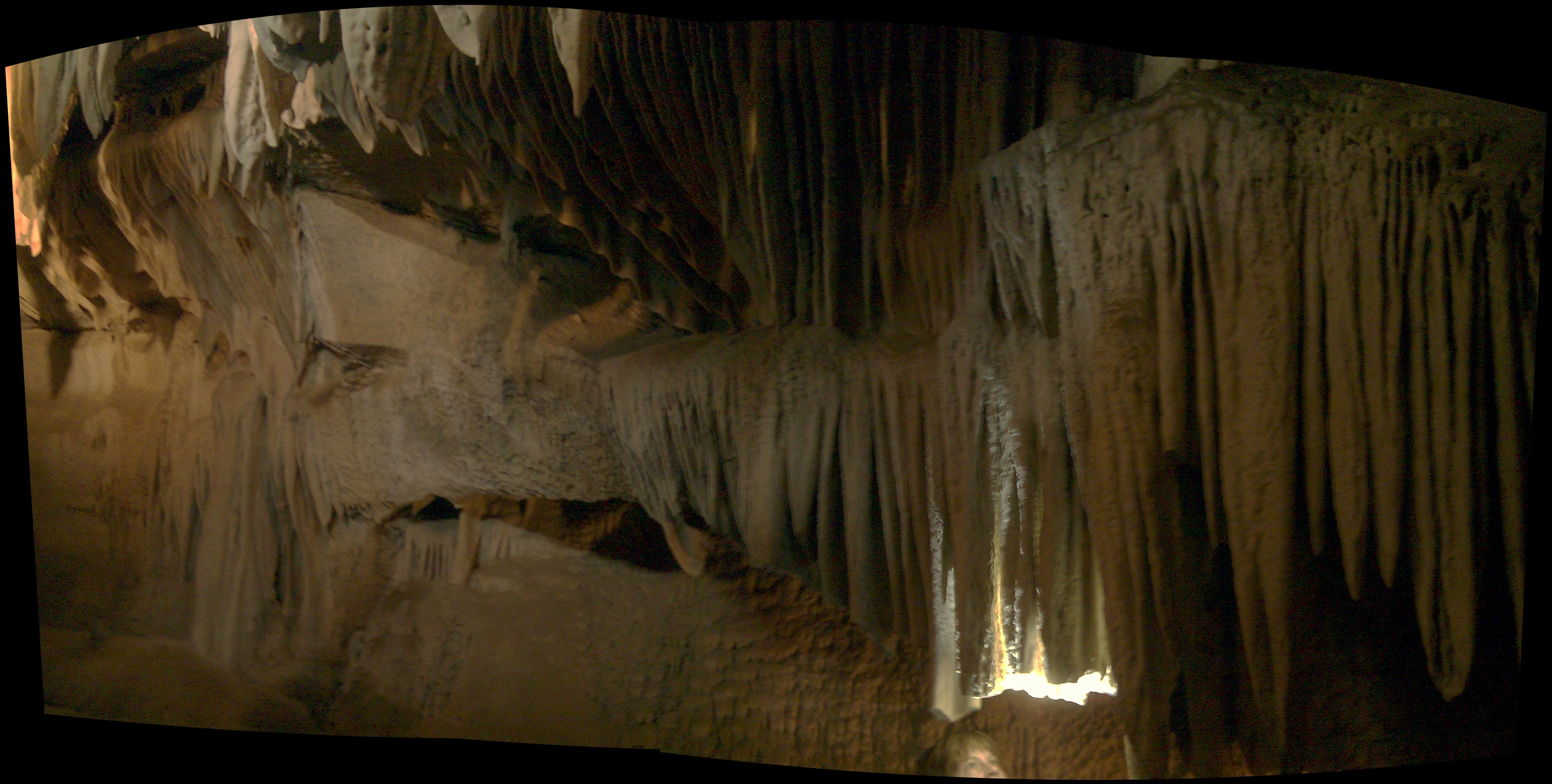 A picture of a cave formation called the "Dragon". On the left, one can see the mouth and as you go right can see the neck and mane.